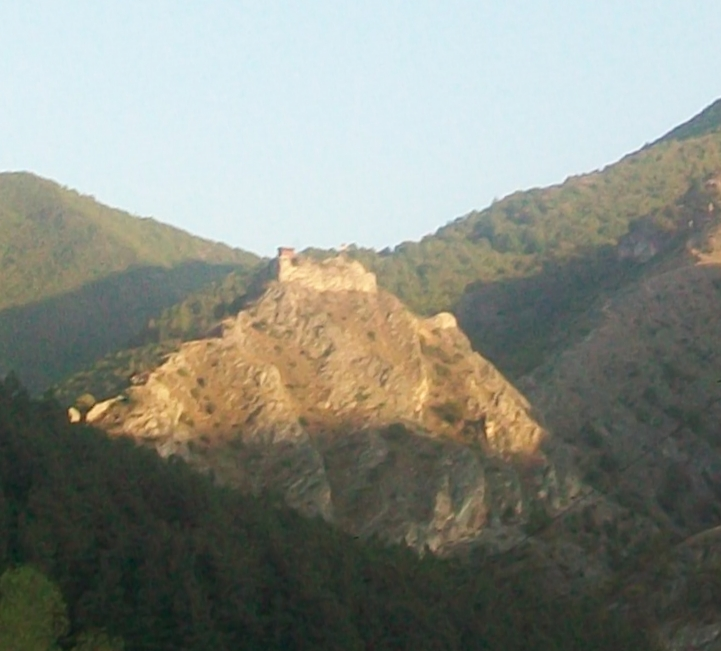 Višegrad fortress above Sveti Arhangeli monastery near Prizren,Serbia.